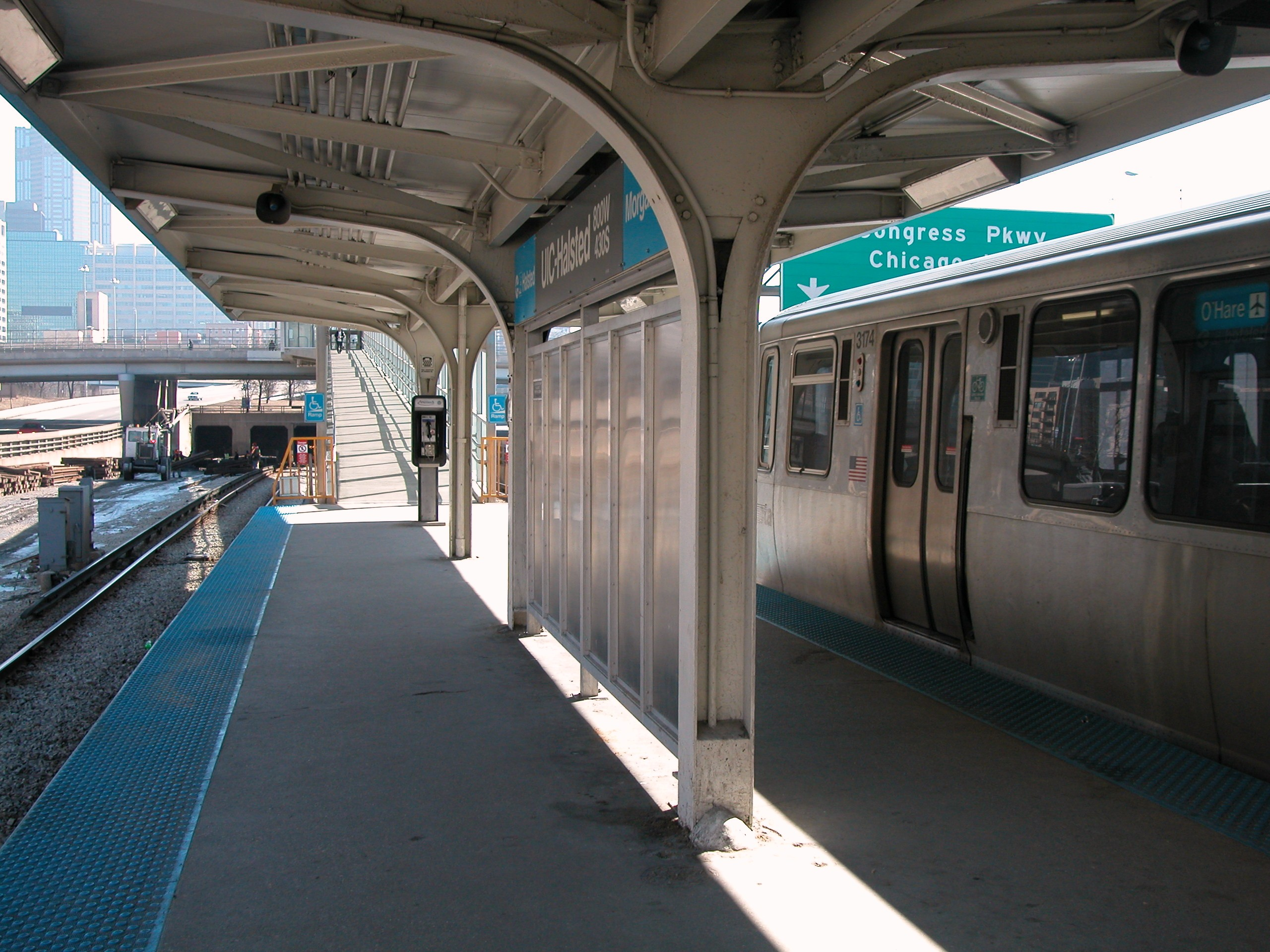 20030314 49 CTA Blue Line L @ U of I Halsted